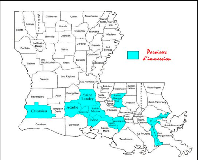 Parishes where Francophone Public Education exists as of 2011.